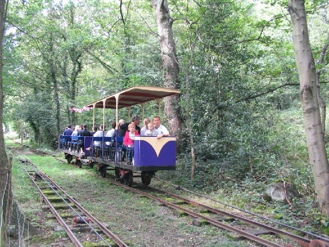 Shipley Glen Railway. The Shipley glen tramway runs through the popular visitor attraction of Shipley Glen, constructed in 1895 with two open carriages. The trams were rebuilt in 1928 during the conversion to electric power and again in 1955 and 1990. The tramway closed in 1966 after a small accident but was saved from closure in 1969. The tramway again closed in 1982 and it was extensively repaired.The Tramway is now run by volunteer Trustees and volunteers from the local public. SGT is owned by Bradford Council and the Tustees have taken a 125 year lease on a full repair and maintenance basis, (Thanks to Glentramway for information)